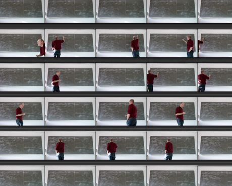 Martin Dornberg during a lecture performance